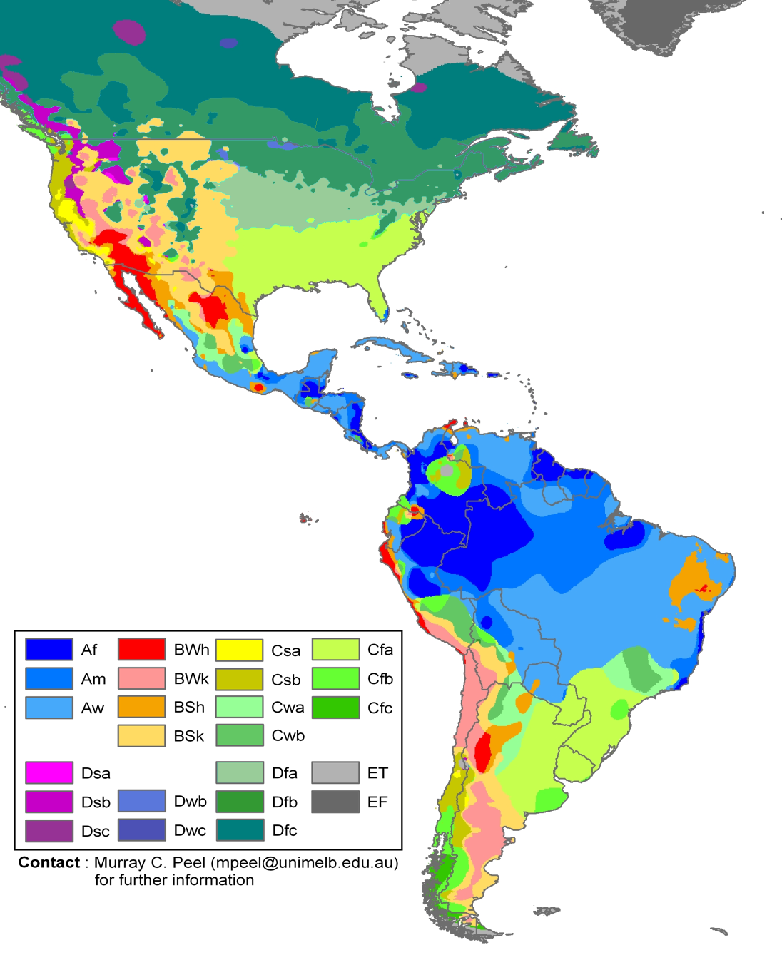 Edited Americas map of the Köppen-Geiger climate classification. The original was a world map JPG file which was converted to a smaller PNG file, without extra modifications, by Jeroen. The PNG file was further modified by WolfmanSF as follows: the map was cropped to reduce it to South America and most of North America; climate zone Dfa was changed to web color 99CC99, and climate zone Dfb was changed to web color 339933 (both shades of green); the color modifications to climate zones of temperate North America were intended to make the colors of tropical climate zones more distinctive, for use in articles on the Great American Interchange. The legend was rearranged, and climate zones Cwc, Dsd, Dwa, Dwd and Dfd were removed from the legend because they do not appear on this map.